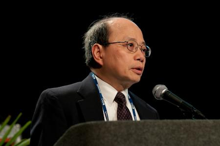 Prof. King-Wai Yau delivering the 2008 Champalimaud Award lecture at the ARVO (Association for Research in Vision and Ophthalmology) meeting.